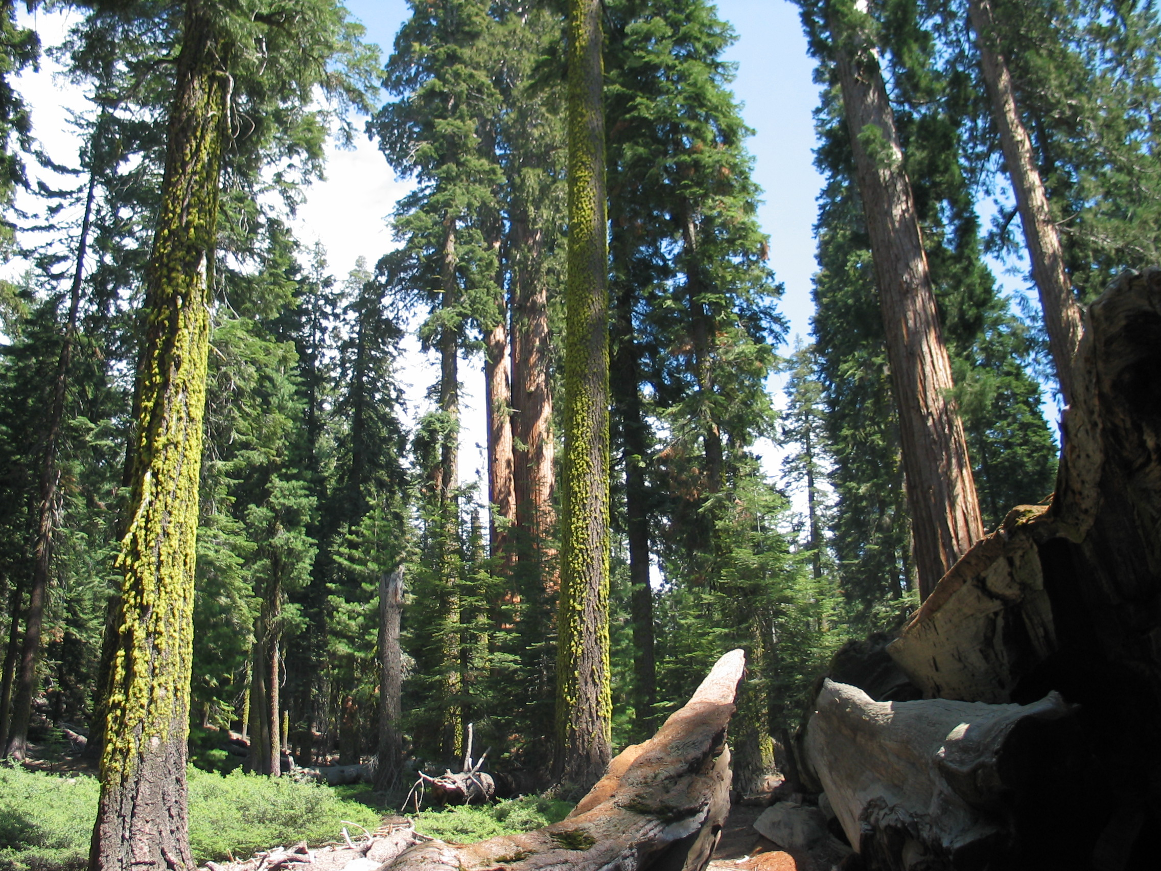 Sierra Redwood Sequoiadendron giganteum and Douglas-fir Pseudotsuga menziesii in an unknown Sierra Nevada location (not Redwood National park).